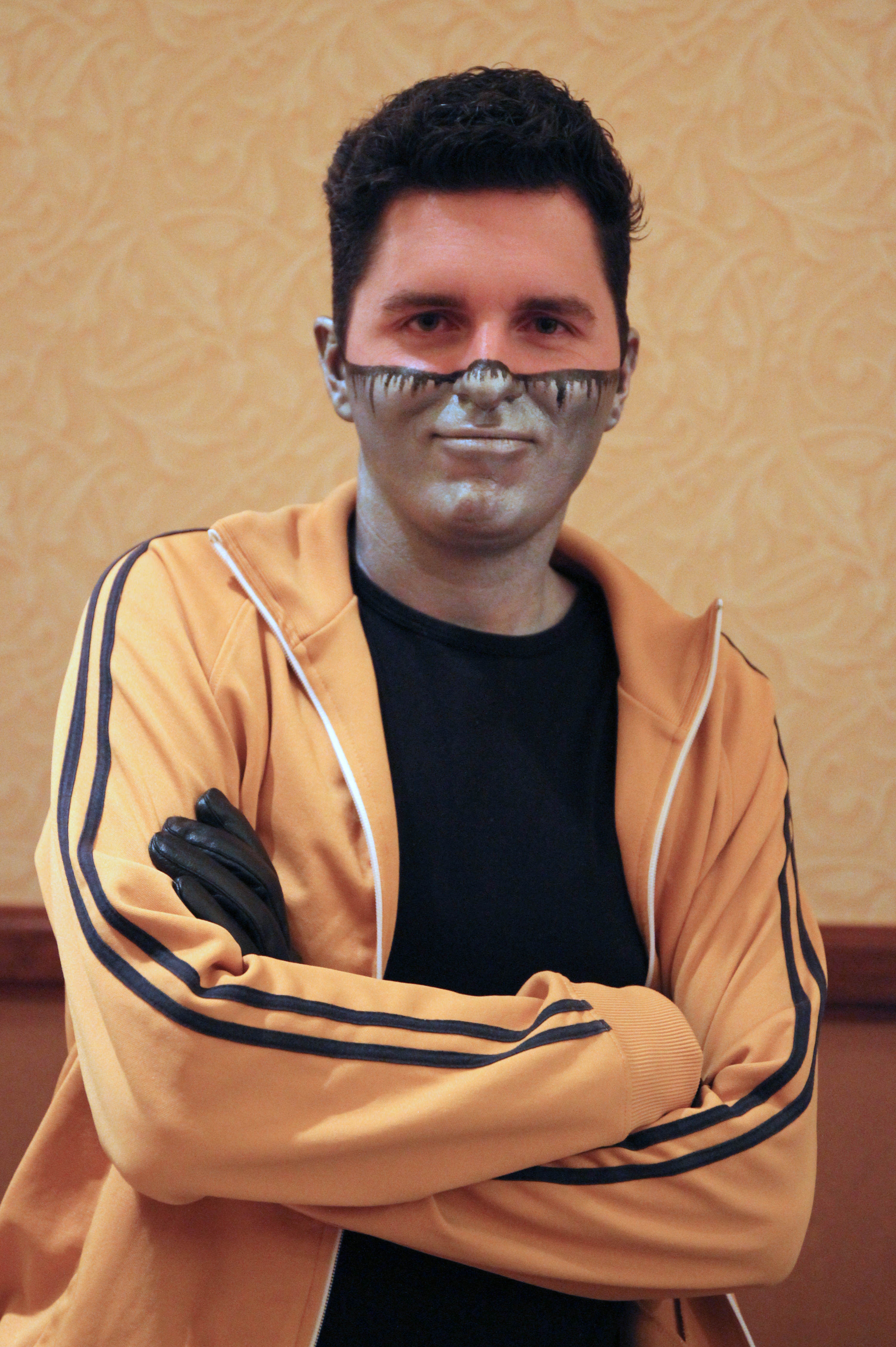 Alan Melikdjanian at TAM9